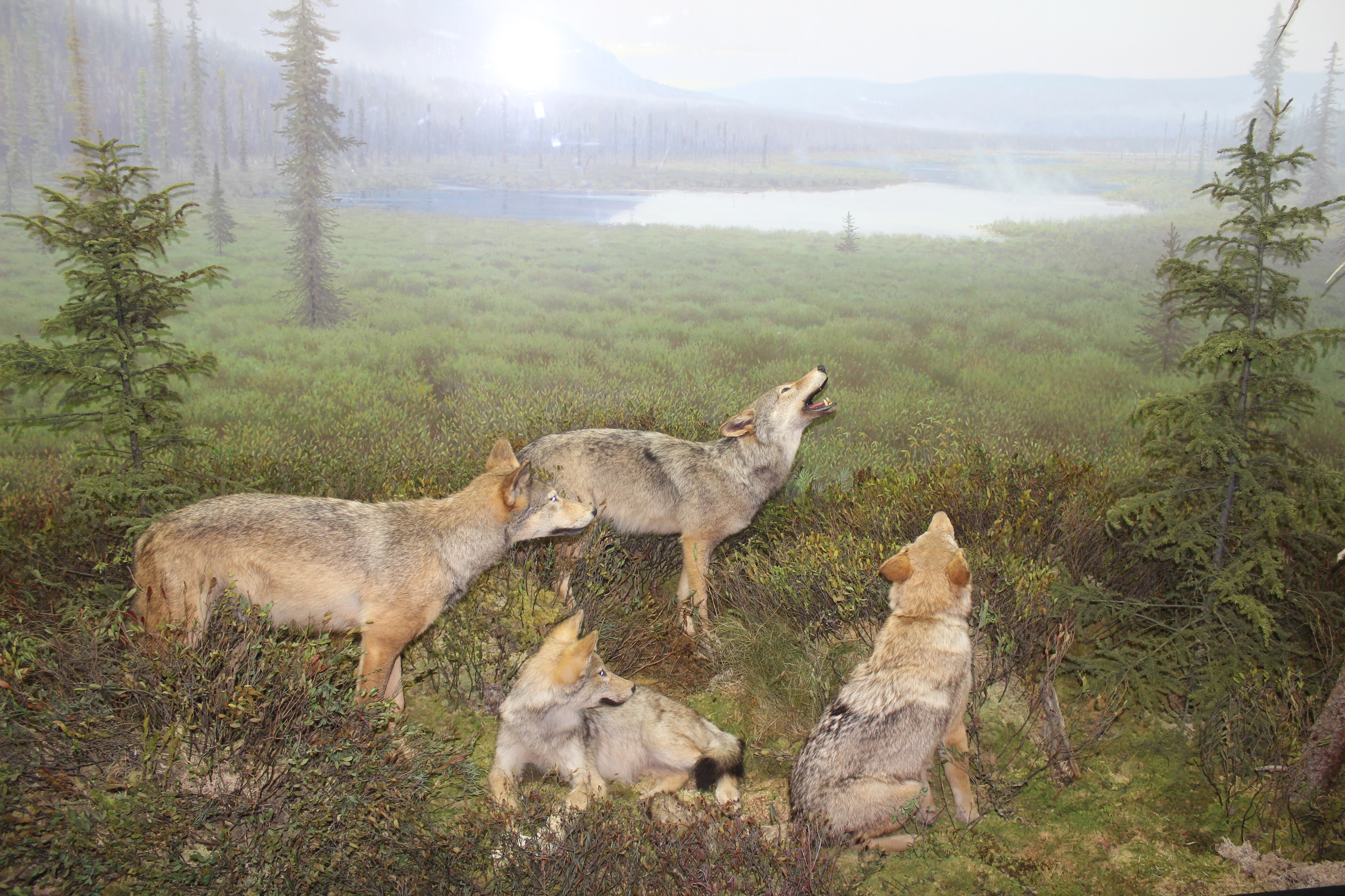 Taxidermy exhibit of eastern wolves in the Algonquin Provincial Park.